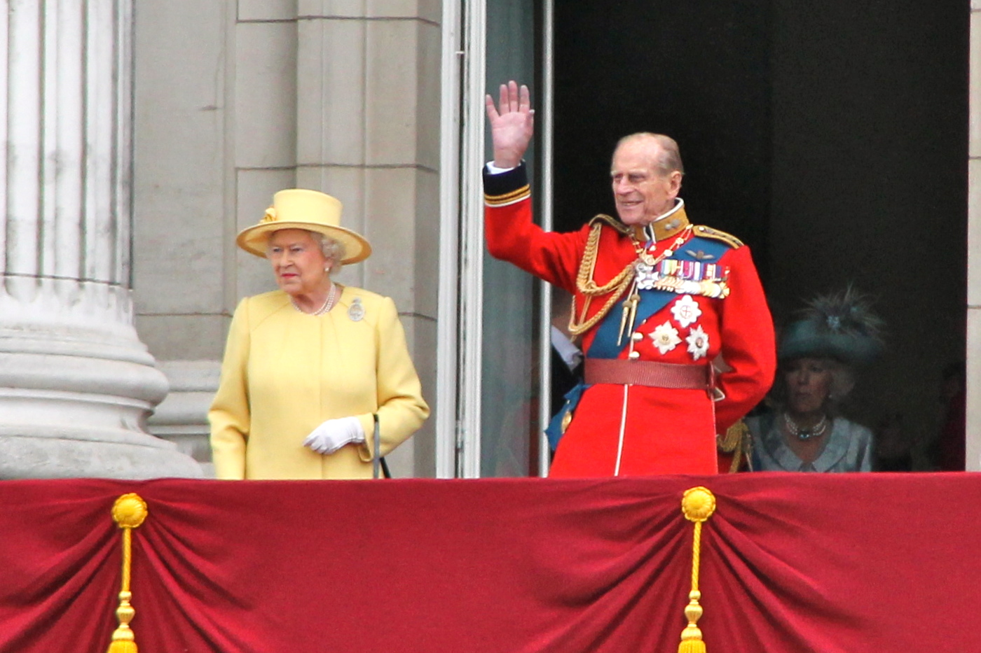 HM The Queen and Prince Philip on the balcony of Buckingham Palace, 16 June 2012